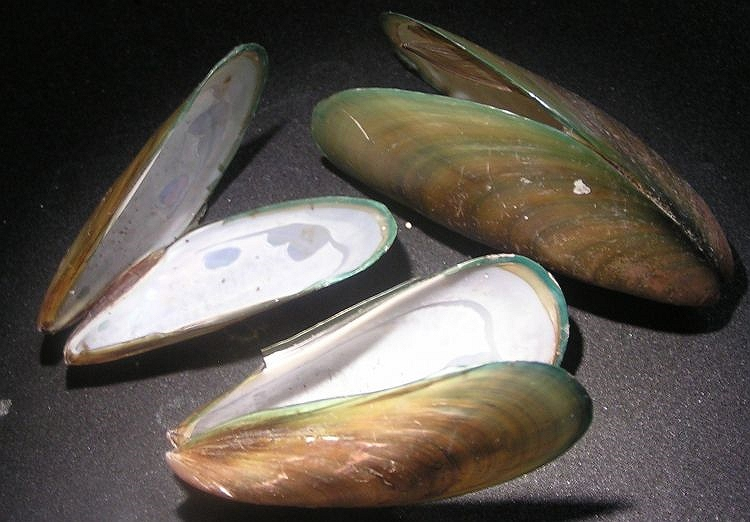 Perna viridis (Linnaeus, 1758) , the Asian green mussel, family Mytilidae; Philippines